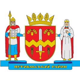 Coats of arms of Putivlskij district (Ukraine)